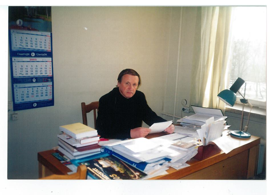 С. В. Тютюкин за работой в ИРИ РАН